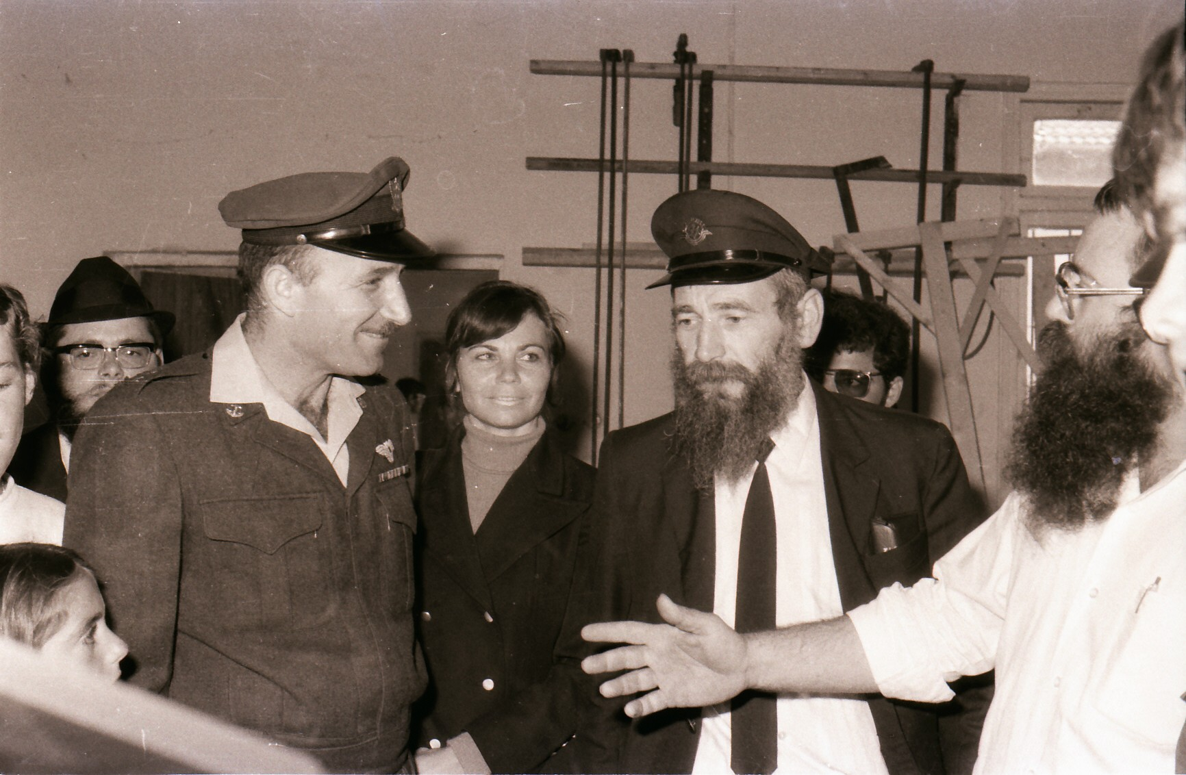 People of Israel